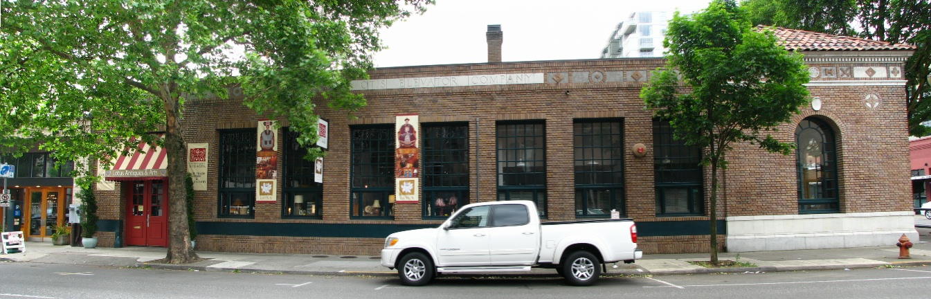 The historic Otis Elevator Company Building (built 1920), located at 230 Northwest 10th Avenue in Portland, Oregon, United States, is listed on the US National Register of Historic Places.